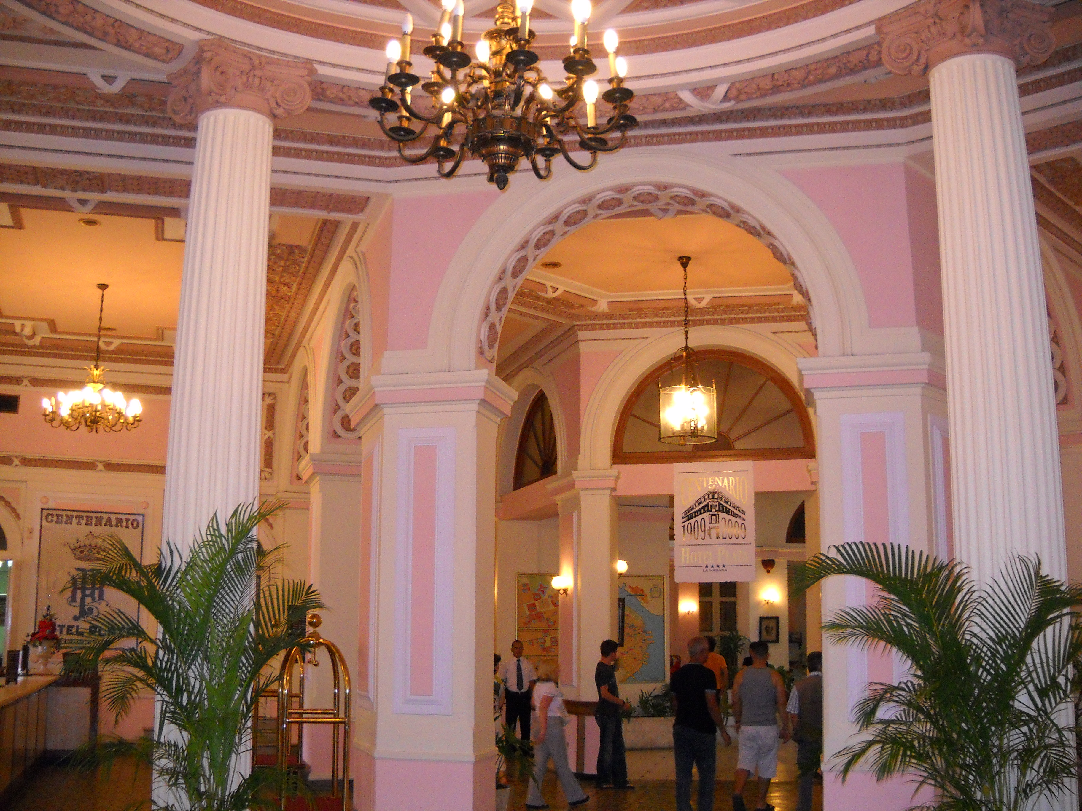 Lobby of Hotel Plaza in Havana